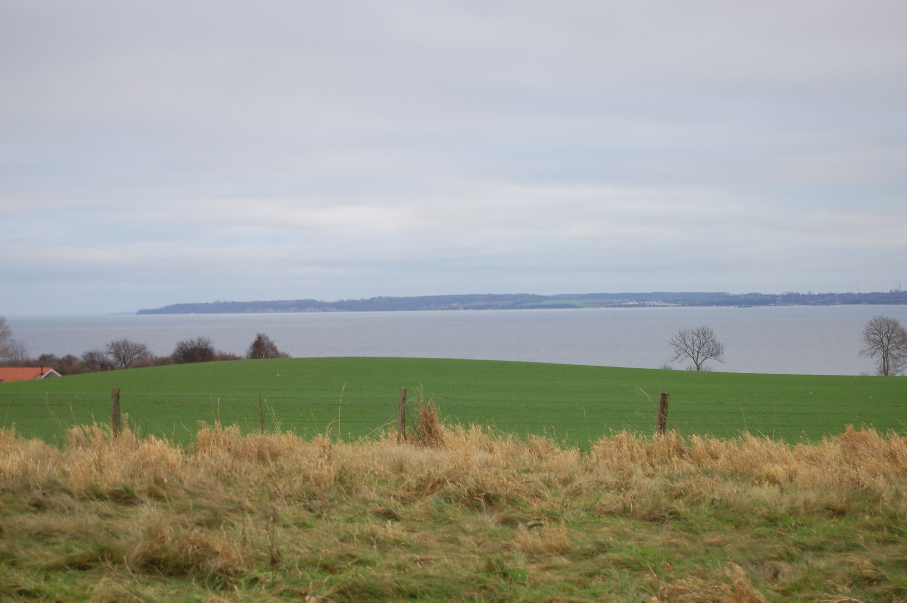 View over the Eckernförder Bucht from north. Visible is the campground Surendorf an the WTD71 pier.